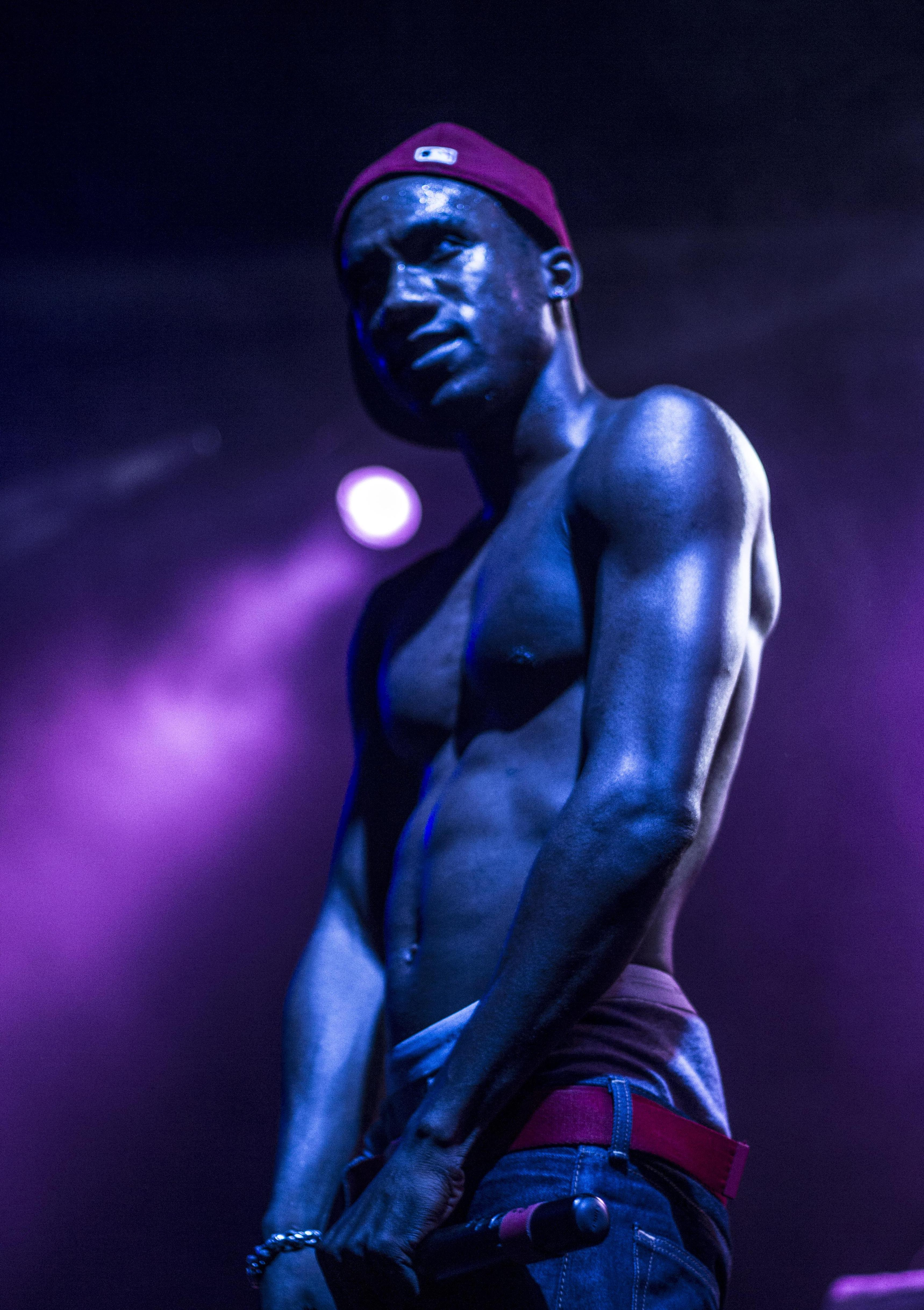 Hopsin @ Kool Haus May 16 (Toronto)